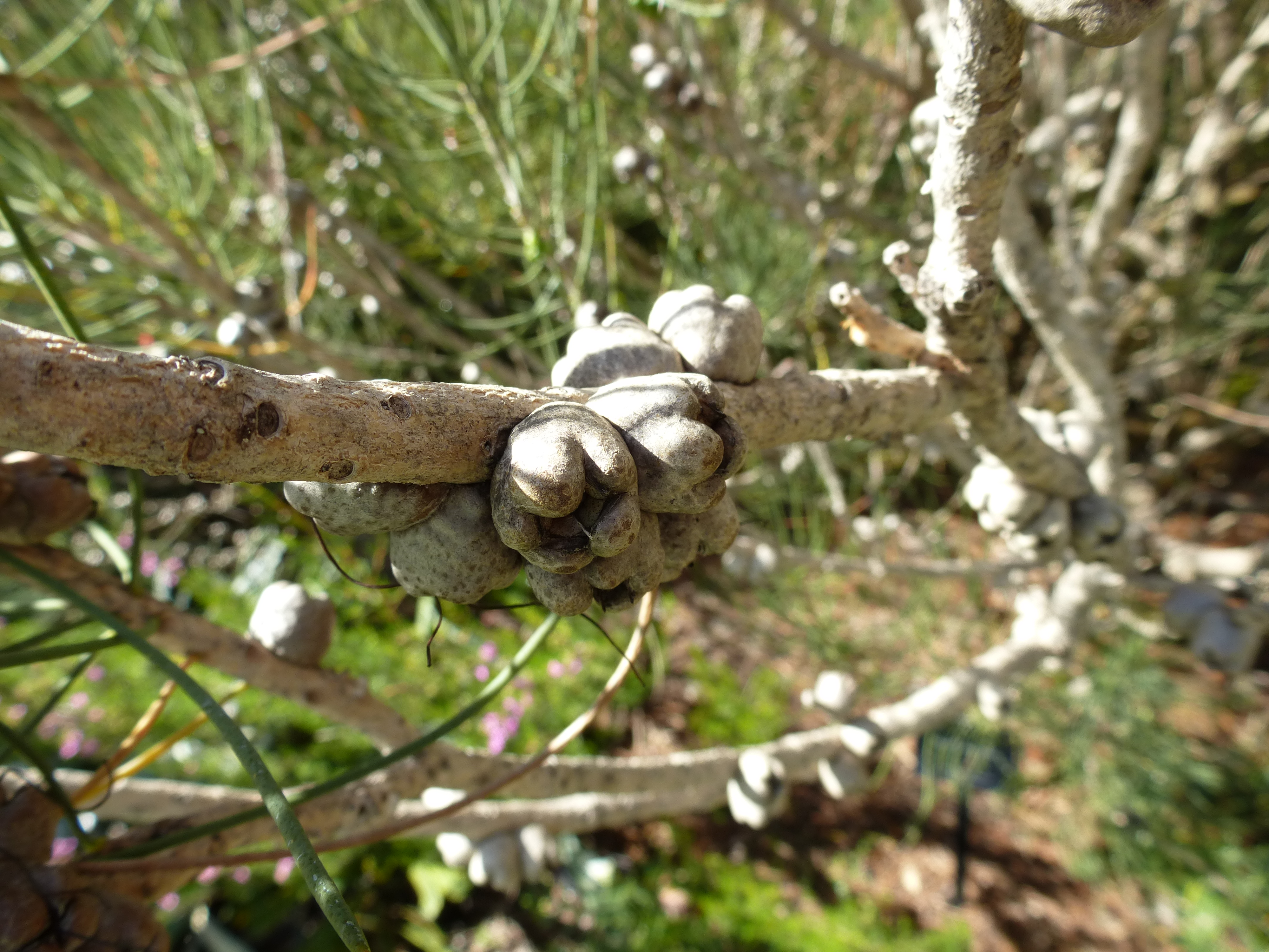 Calothamnus gilesii growing in Kings Park